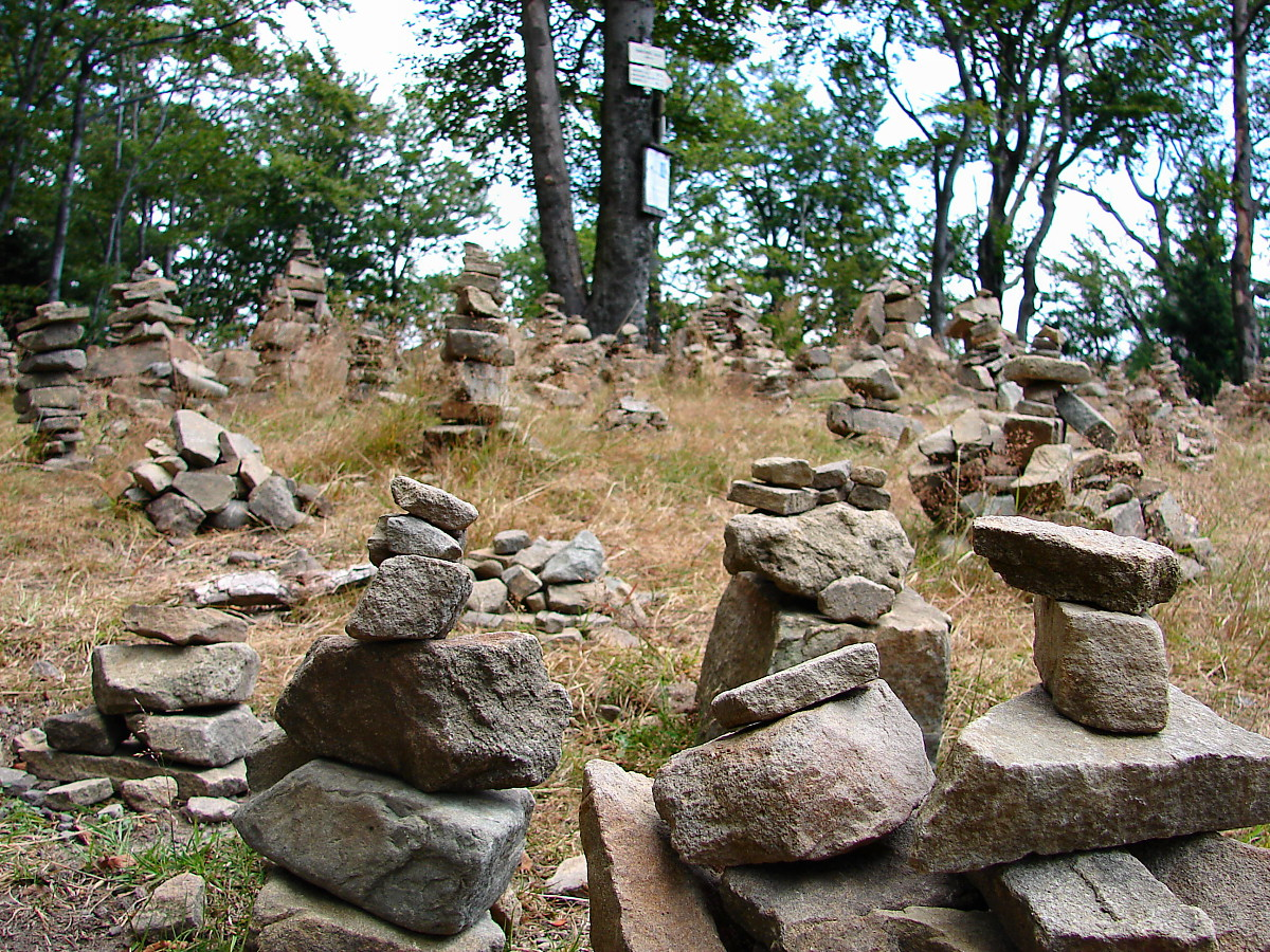 Summit of Tanečnice in Moravian-Silesian Beskids